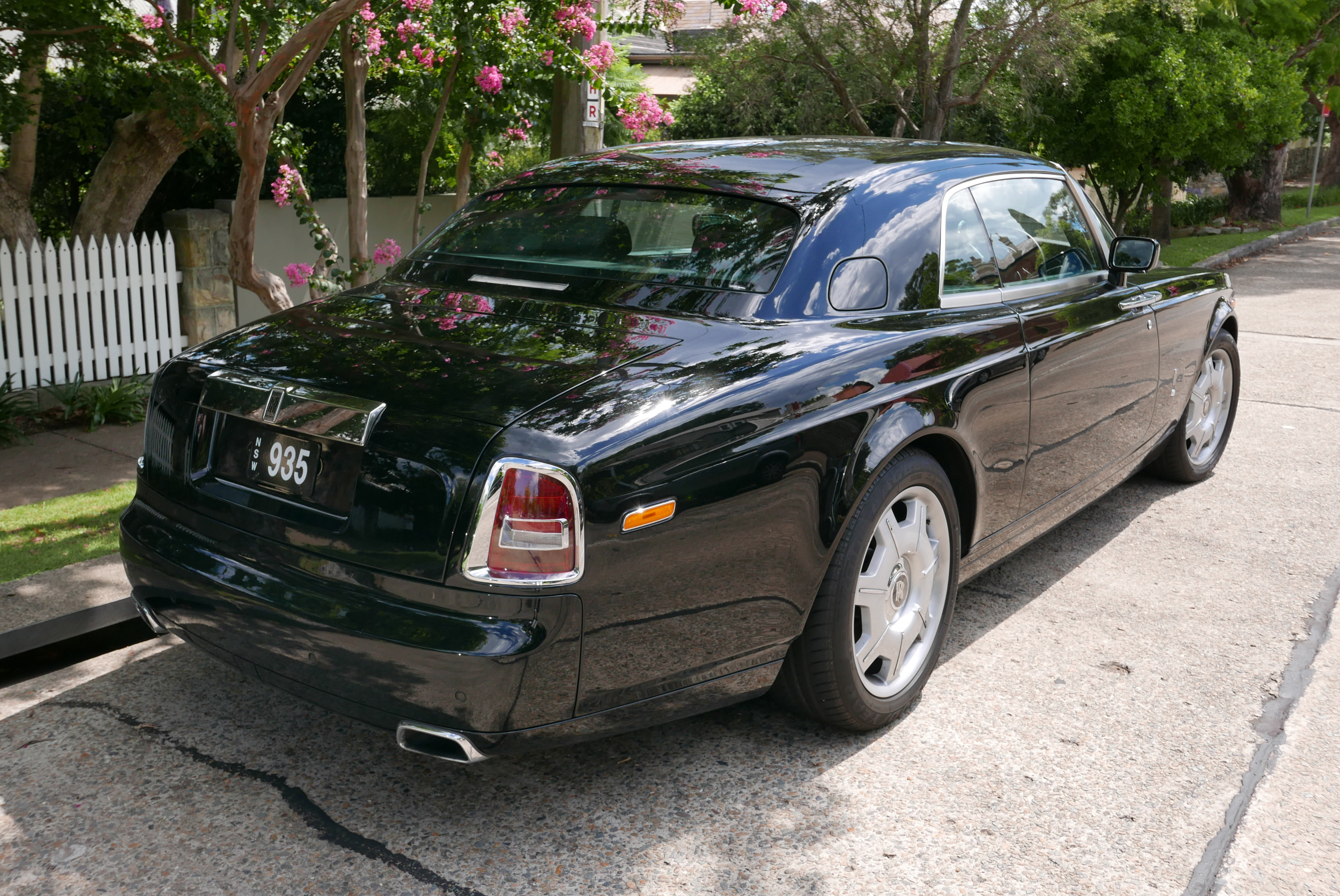 2009 Rolls-Royce Phantom (3C68) coupe. Photographed in Hunters Hill, New South Wales, Australia.